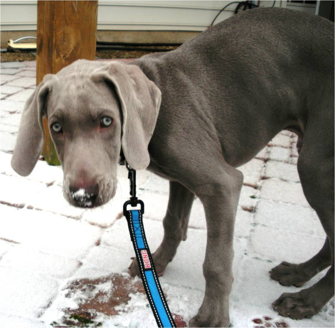 Photograph showing characteristic roaching of 4-month-old puppy with Hypertrophic Osteodystrophy.